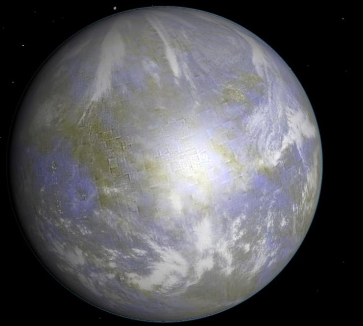 My artistic view of hypothetical planet Phaeton, created for my article on Polish Wikipedia